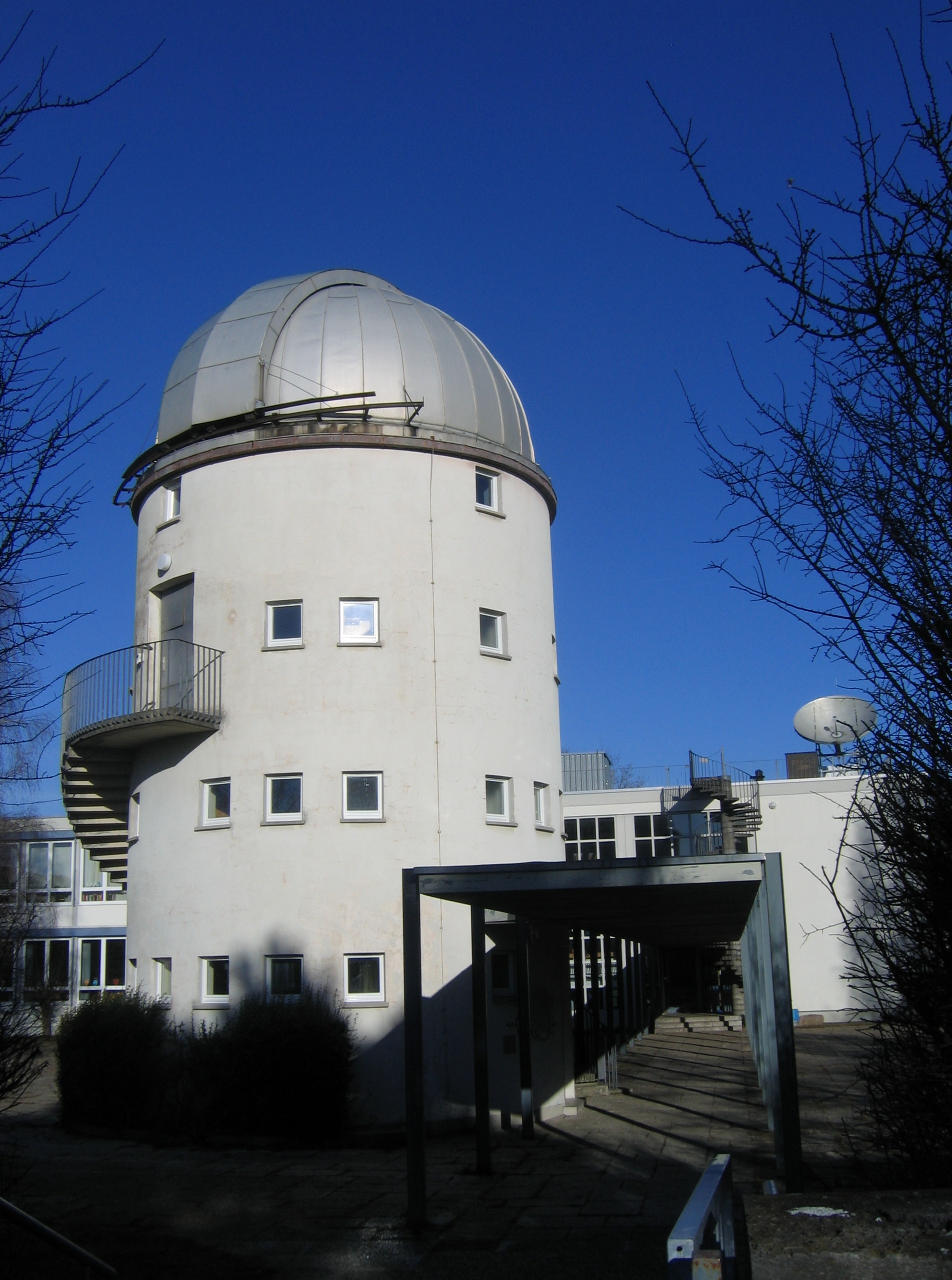 The observatory in Würzburg